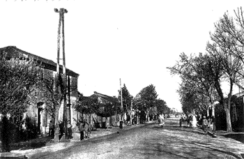 A picture of the town's Main Street.